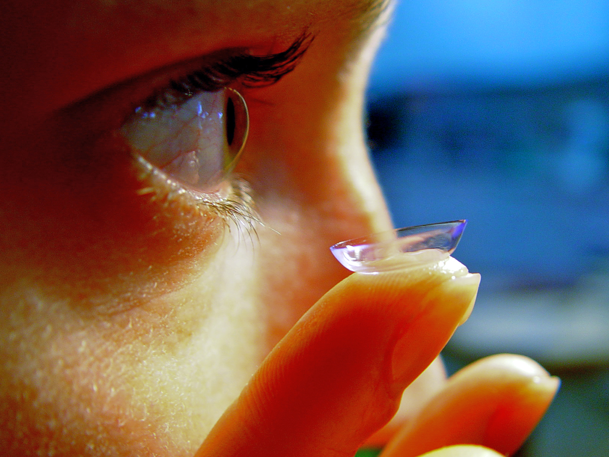 Ayala carefully prepares to put a contact lens